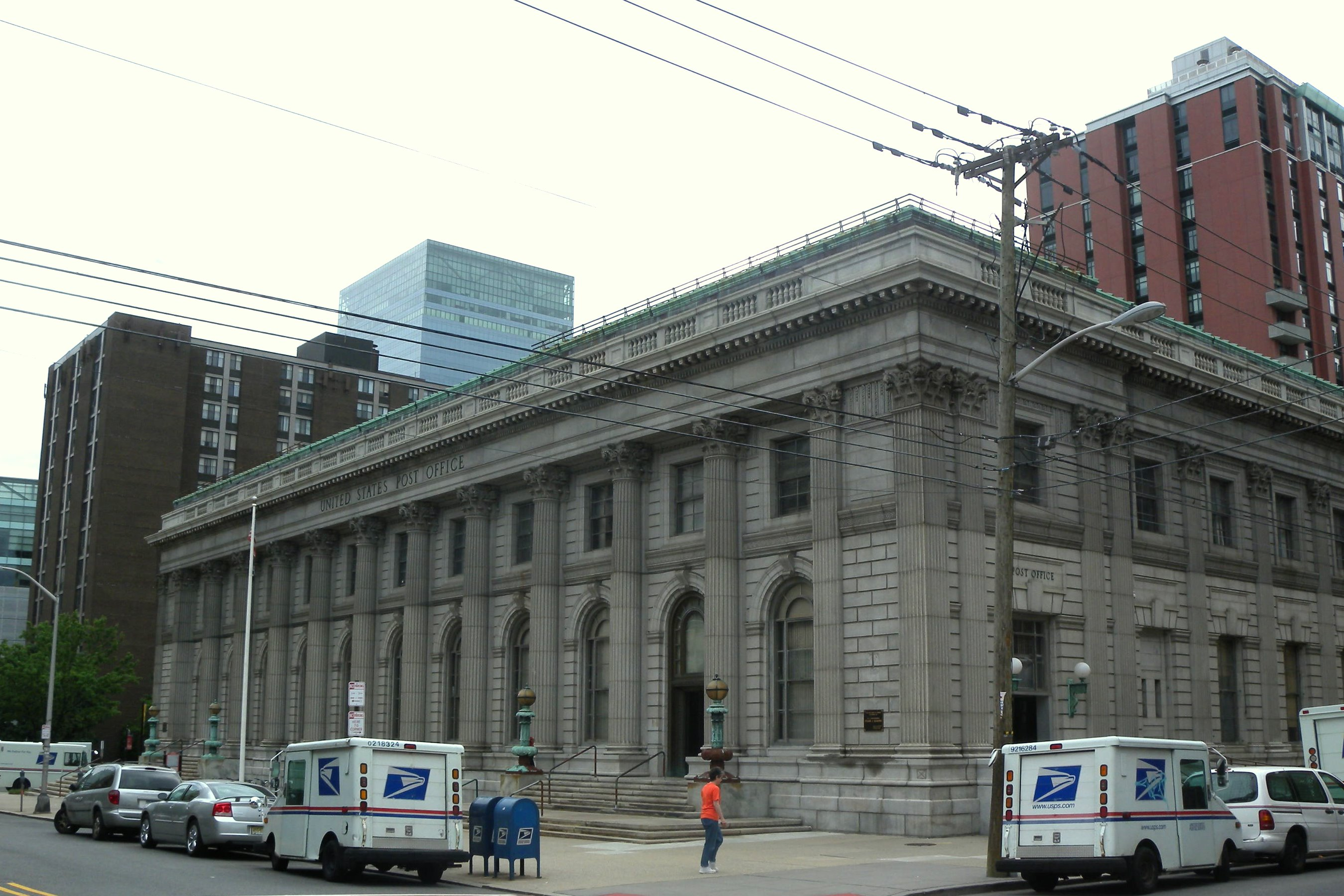 Looking northeast across Washington and York Streets at Post Office, built in 1911, on a cloudy morning. Part of Paulus Hook Historic District.[1]